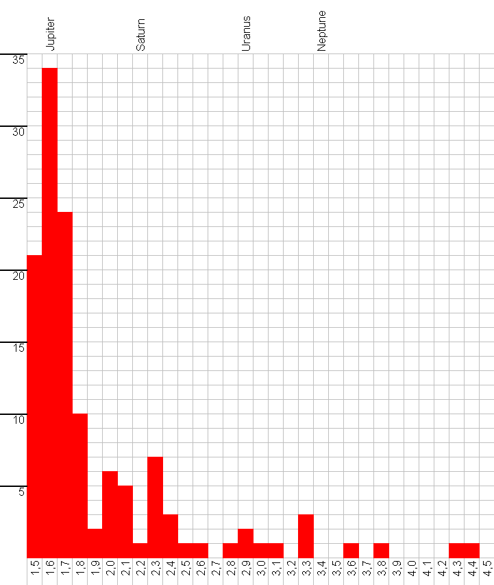 Histogram of the aphelia of the 186 comets listed by the MPC in June 2005. The abscissa is the natural logarithm of the aphelia, expressed in AUs. The grouping at Jupiter's orbit dominates, but the Saturn, Uranus, and Neptune groups can also be seen. Diagram prepared by User:Urhixidur and donated to the public domain.